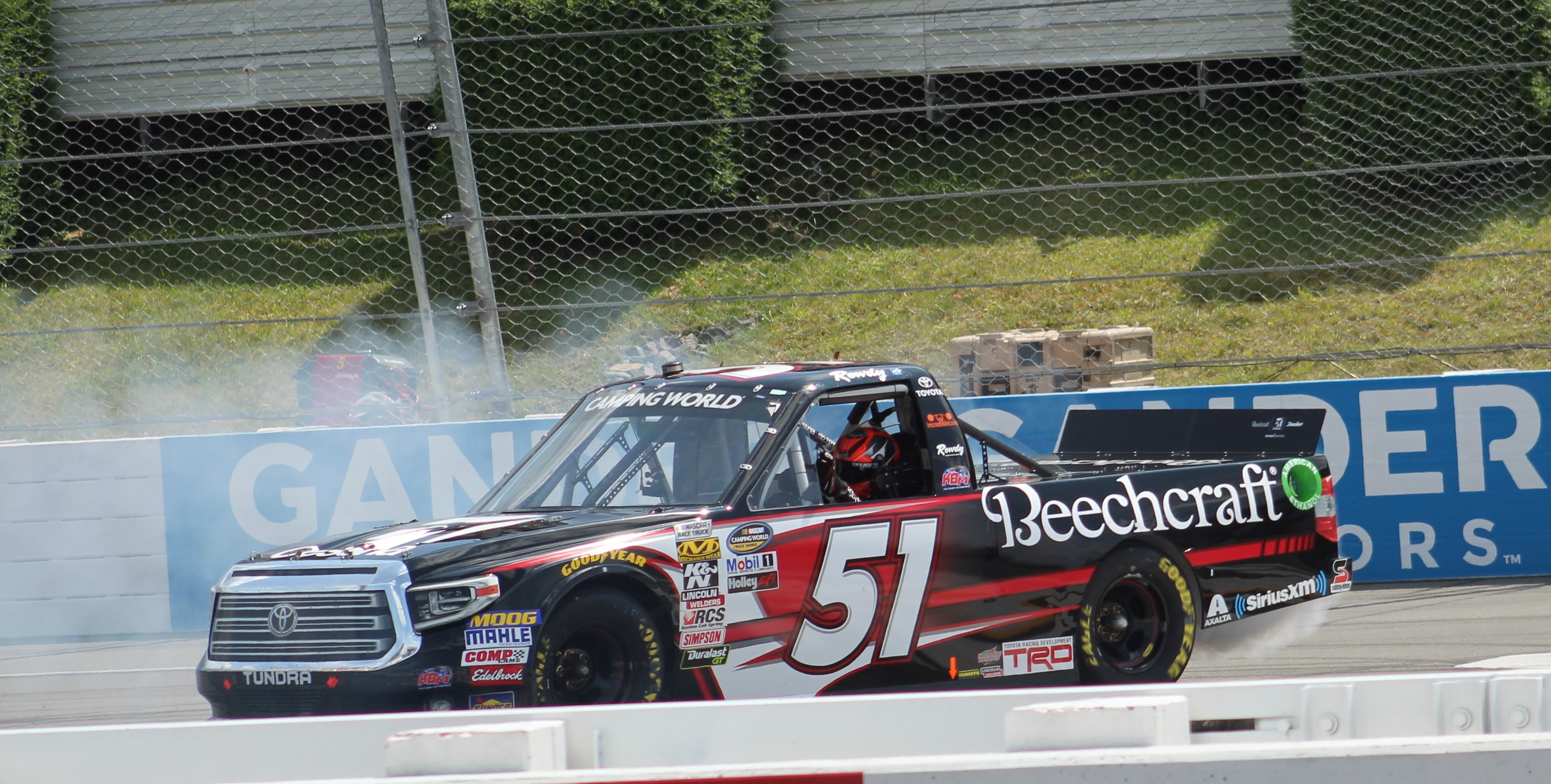 Kyle Busch celebrates after winning the Gander Outdoors 150 at Pocono Raceway in 2018.